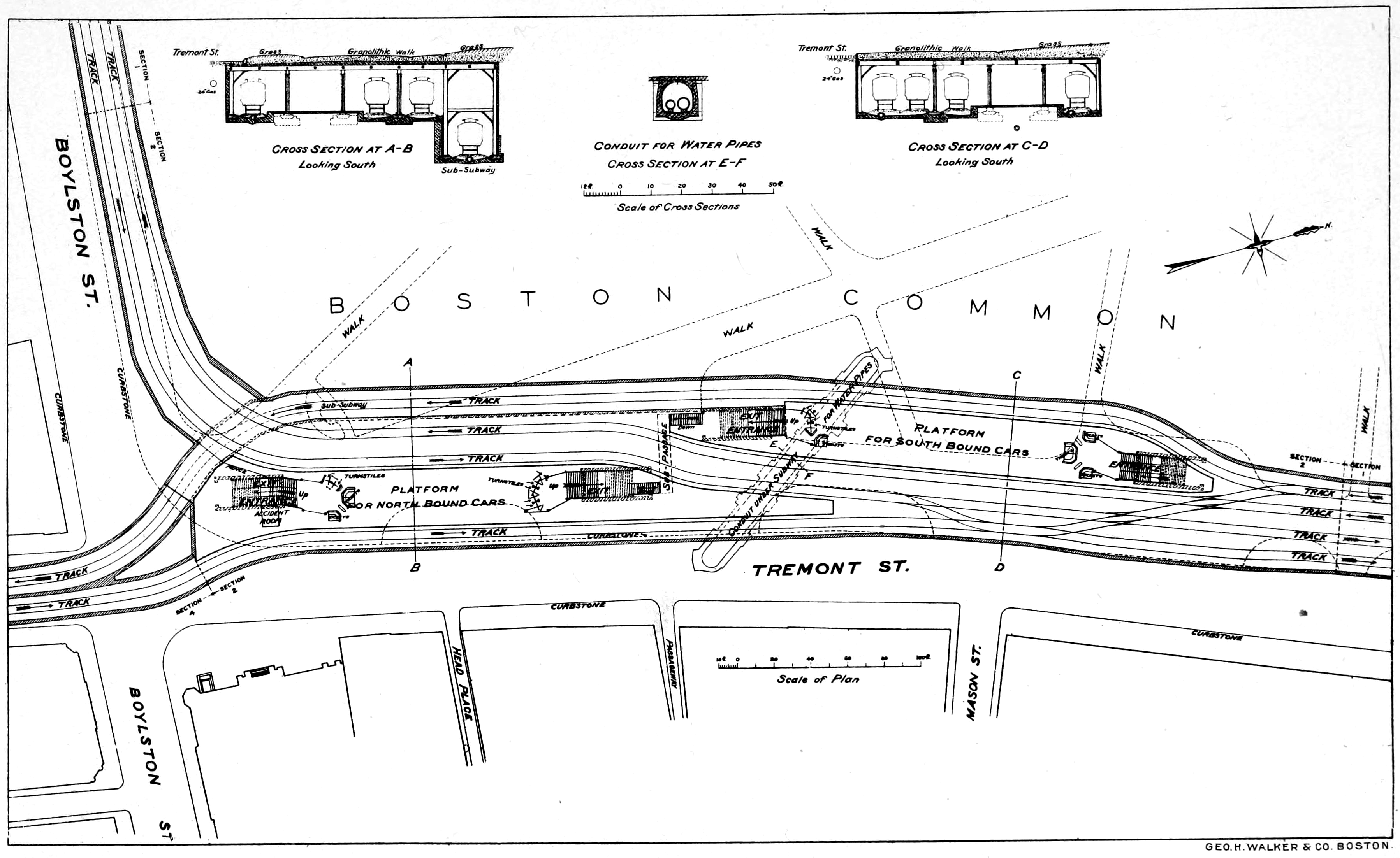 Plan of Boylston station, showing the now-abandoned branch to the Pleasant Street Portal and the sealed passageway between the two platformsOriginal caption: PLAN OF BOYLSTON STREET STATION